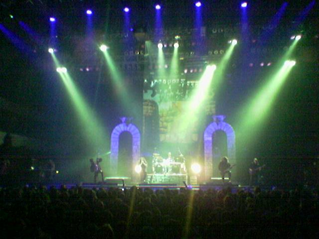 Rhapsody of FireFoto(518)